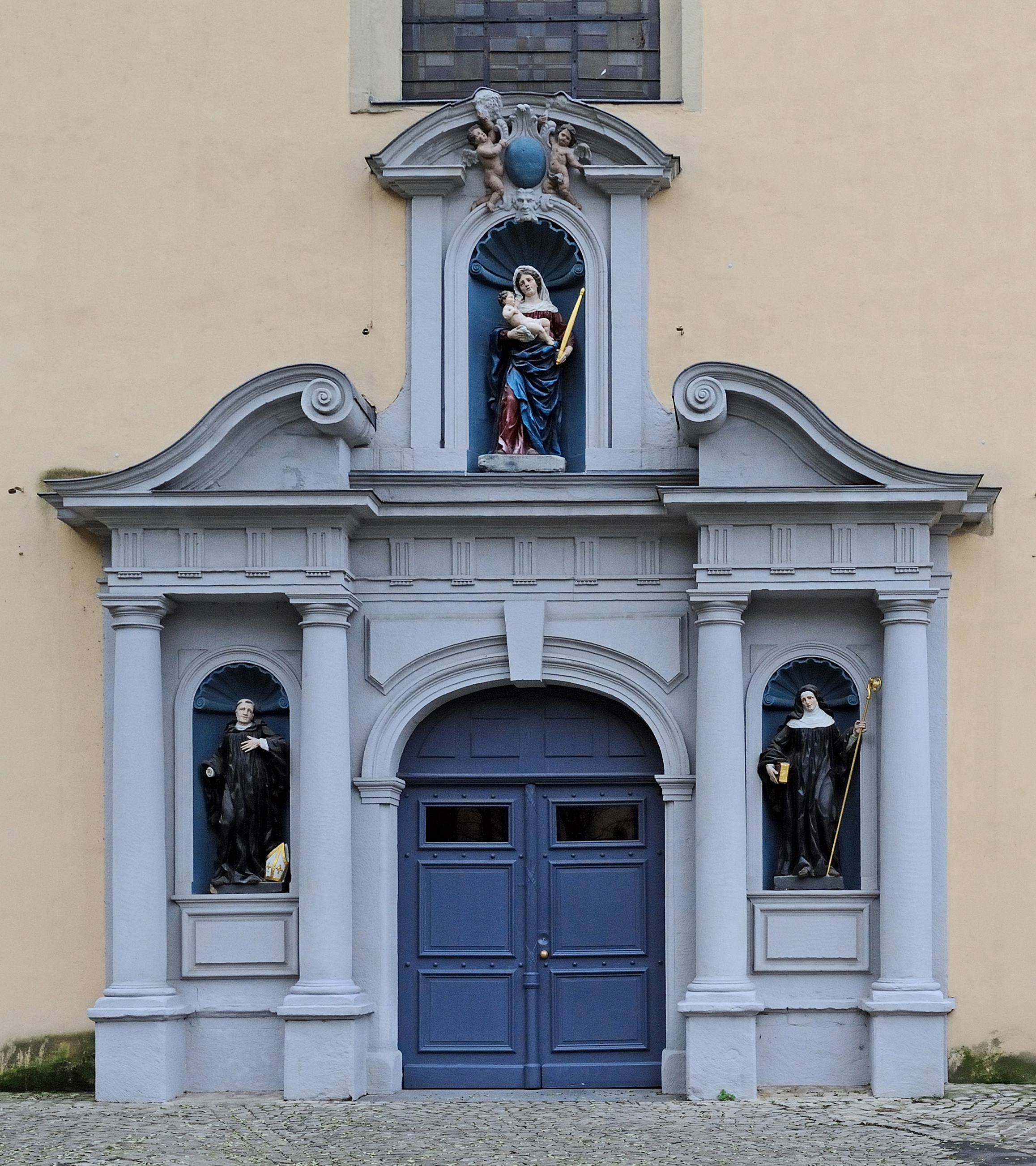 Luxembourg City: Portal of Eglise Saint-Jean in Luxembourg-Grund (November 2008). The statue (at right) of Saint Scholastica was destroyed in the night of July 10 to 11 2010.